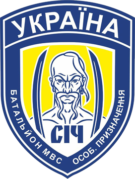 Ukrainian interior ministry's special battalion «Sich» logo.